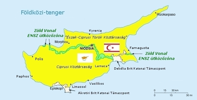 Green Line on Cyprus map